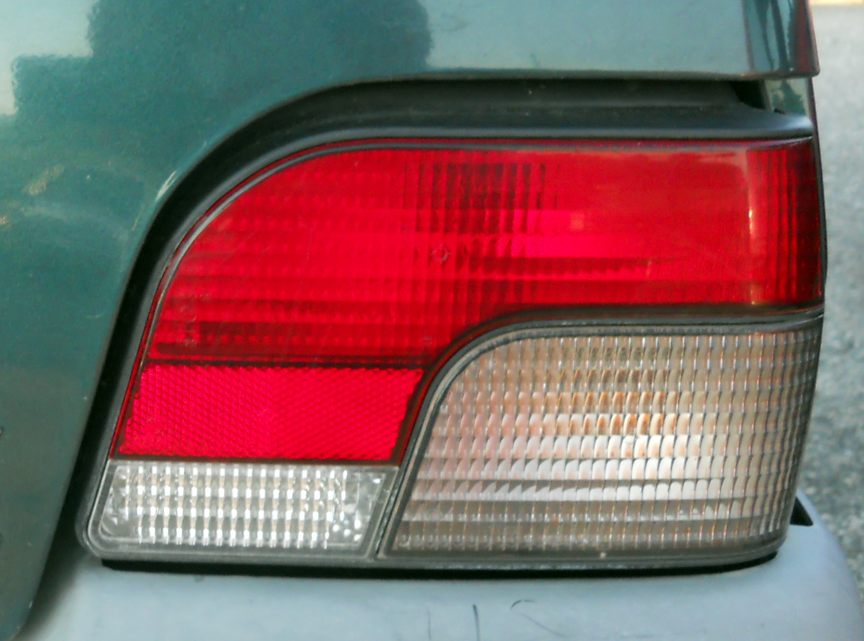 Rover 100 post-facelift rear light; this one is from a 1996 Rover 100 Kensington SE.